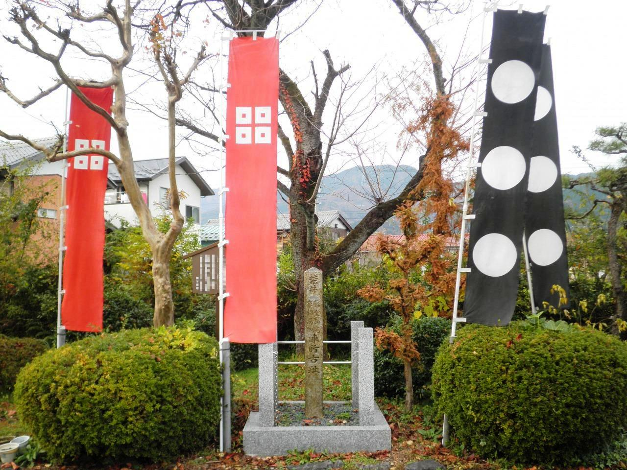 Site of Tōdō Takatora and Kyōgoku Takatomo's Positions in the Battle of Sekigahara.